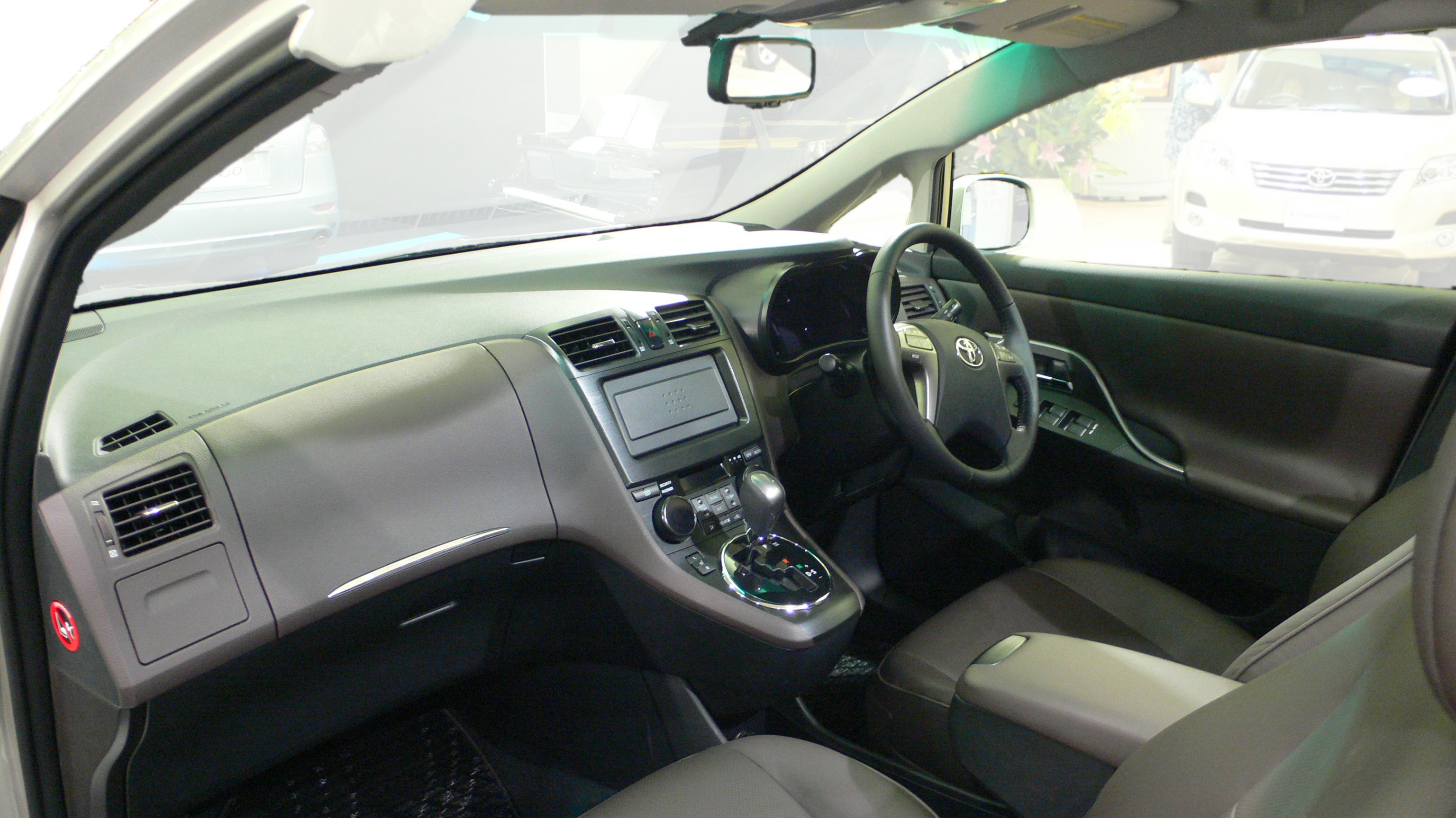 Toyota Mark X Zio (マークXジオ)(2007 - ) photographed in AMLUX